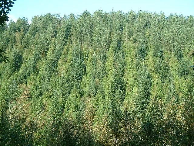 Black Wood, Eisingrug. Conifer plantation on steep east-facing hillside to north-west of Eisingrug hamlet. This view of the plantation shows alternating rows of 2 separate conifer species in a line mixture, known as "pyjama stripes".